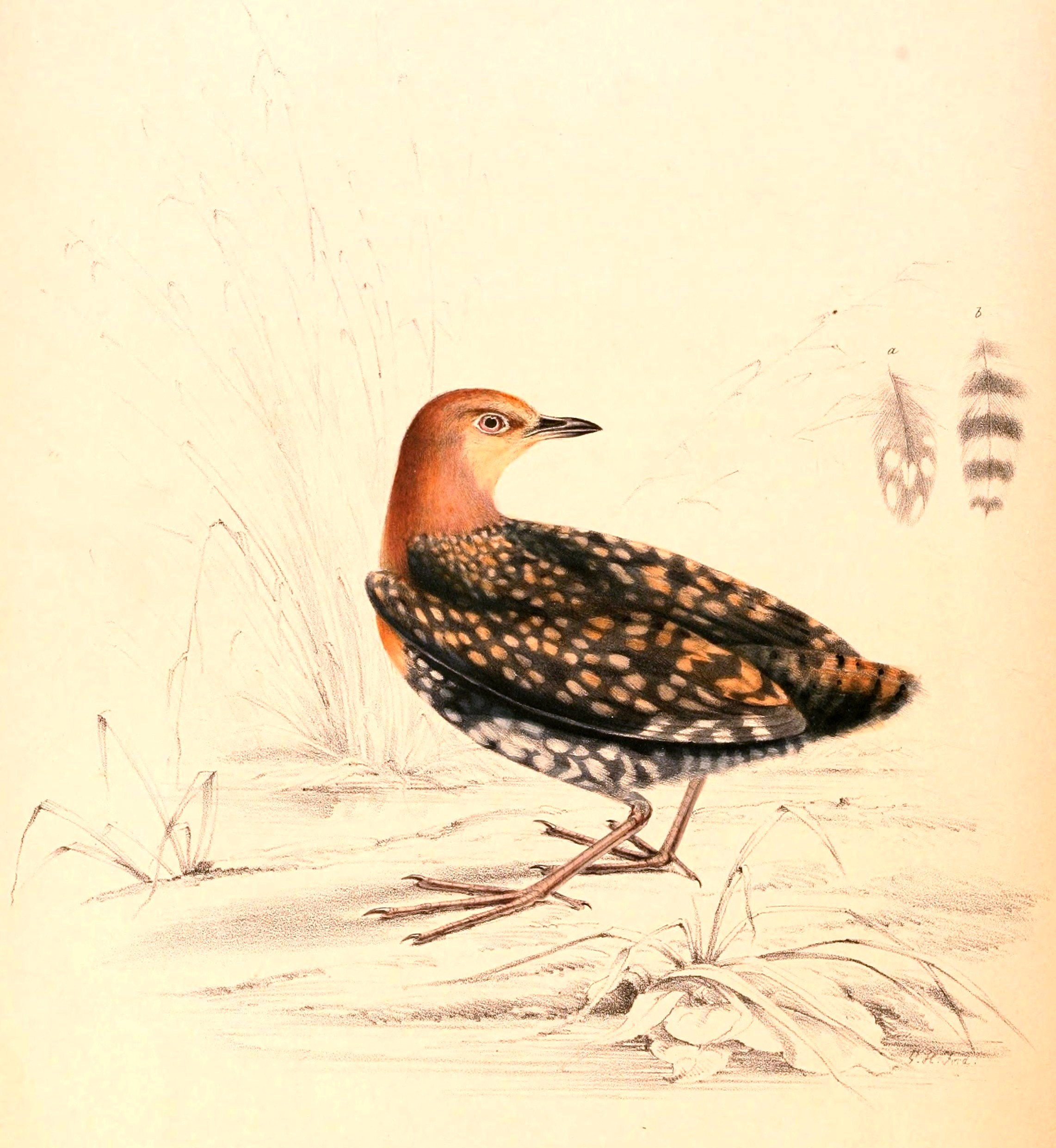 « Gallinula elegans » = Sarothrura elegans elegans (Subspecies of Buff-spotted Flufftail) - male